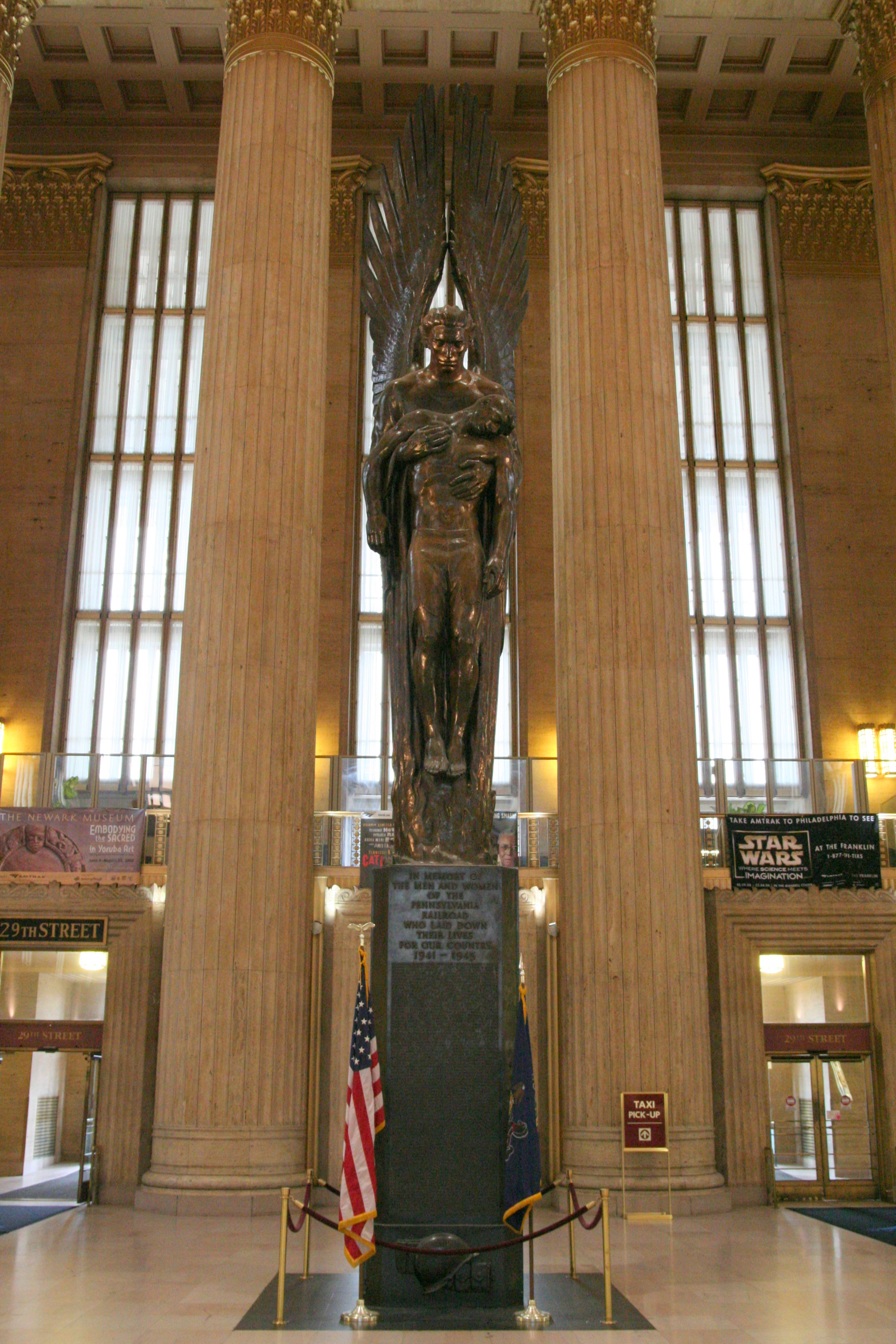 The sculpture "Angel of the Resurrection" located in the waiting room of 30th Street Station in Philadelphia, Pennsylvania. The statue is reminiscent of the fallen soldiers of the Pennsylvania Railroad (PRR) of World War II.Its base bears the following inscription:IN MEMORY OF THE MEN AND WOMEN OF THE PENNSYLVANIA RAILROAD WHO LAID DOWN THEIR LIVES FOR OUR COUNTRY 1941 – 1945